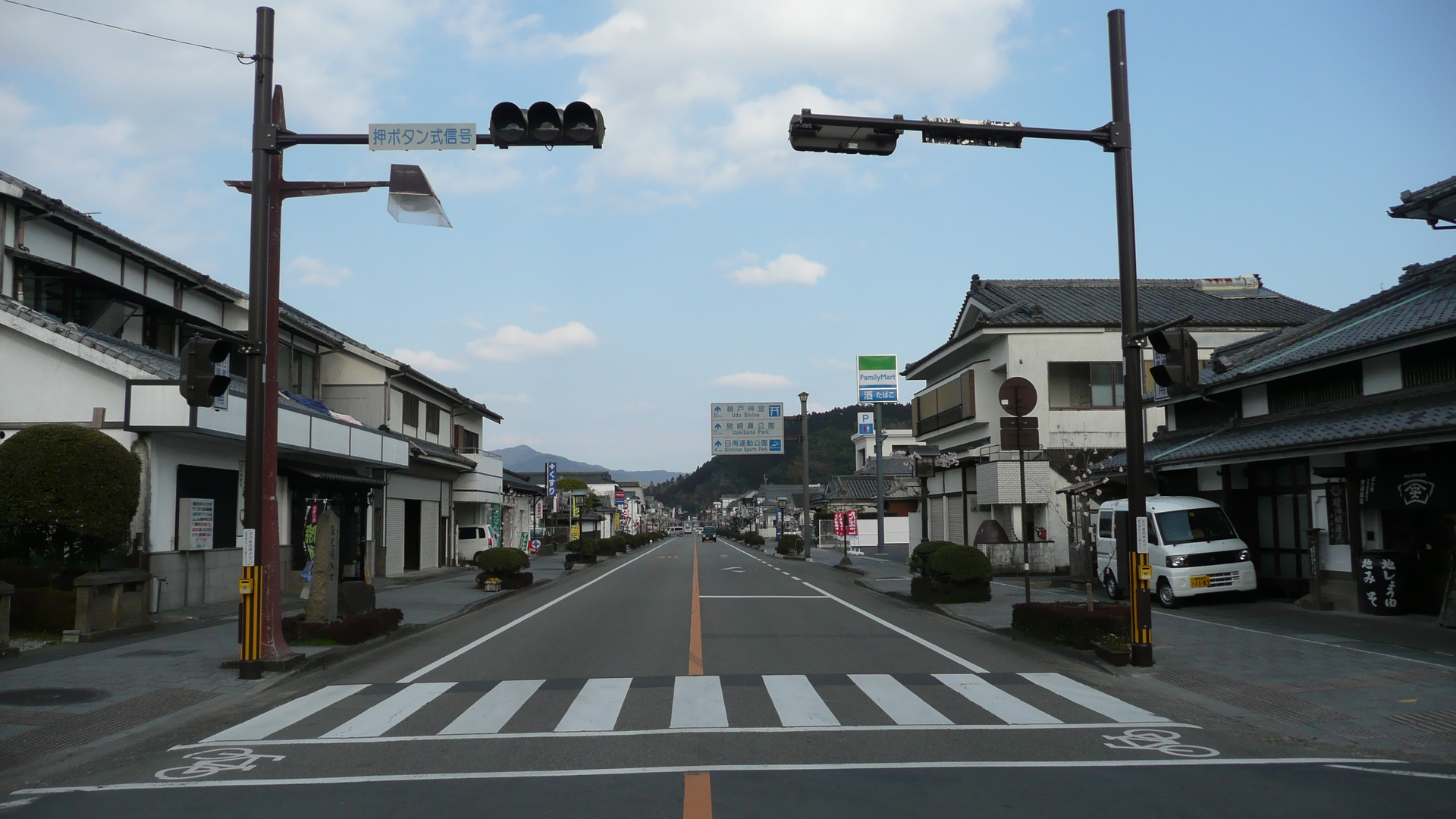 National Route 222 (Obi, Nichinan City, Miyazaki, Japan)